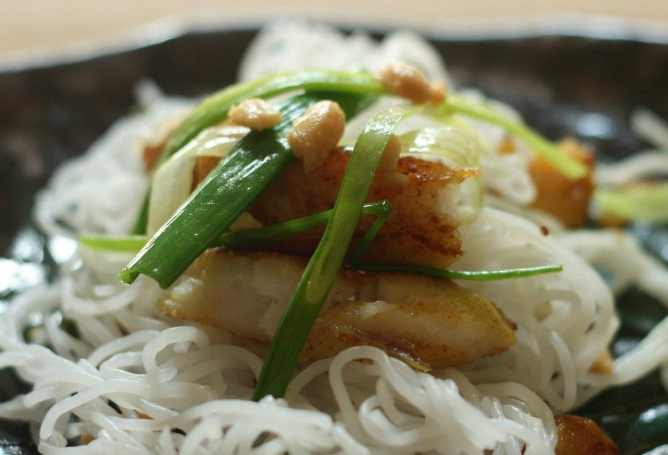 Chả cá Lã Vọng